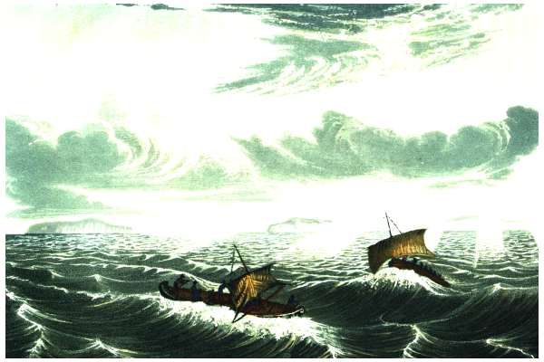 John Franklin's canoes caught by a storm in the Coronation Gulf. The accompanying text reads " The privation of food, under which our voyagers were then labouring, absorbed every other terror; otherwise the most powerful persuasion could not have induced them to attempt such a traverse. It was with the utmost difficulty that the canoes were kept from turning their broadsides to the waves, though we sometimes steered with all the paddles. One of them narrowly escaped being overset by this accident, happening in mid-channel, where the waves were so high that the mast-head of our canoe was often hid from the other, though it was sailing within hail. The annexed plate, from Mr. Back’s sketch, will convey to the reader an accurate idea of the peril of our situation."